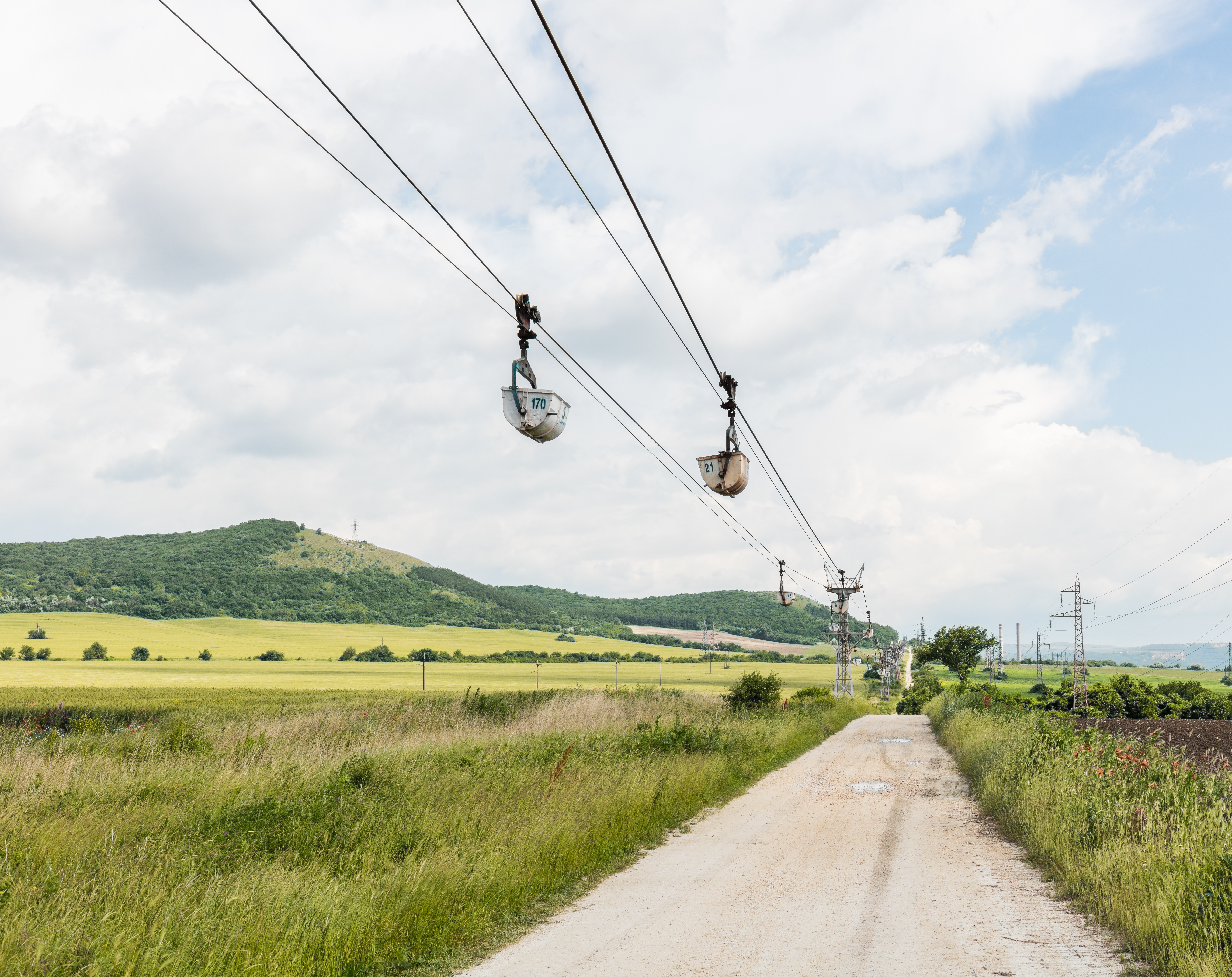 Mineral cable transport, Bulgaria